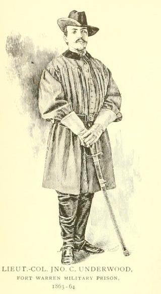 Report of proceedings incidental to the erection and dedication of the Confederate monument (1896), p. 2.